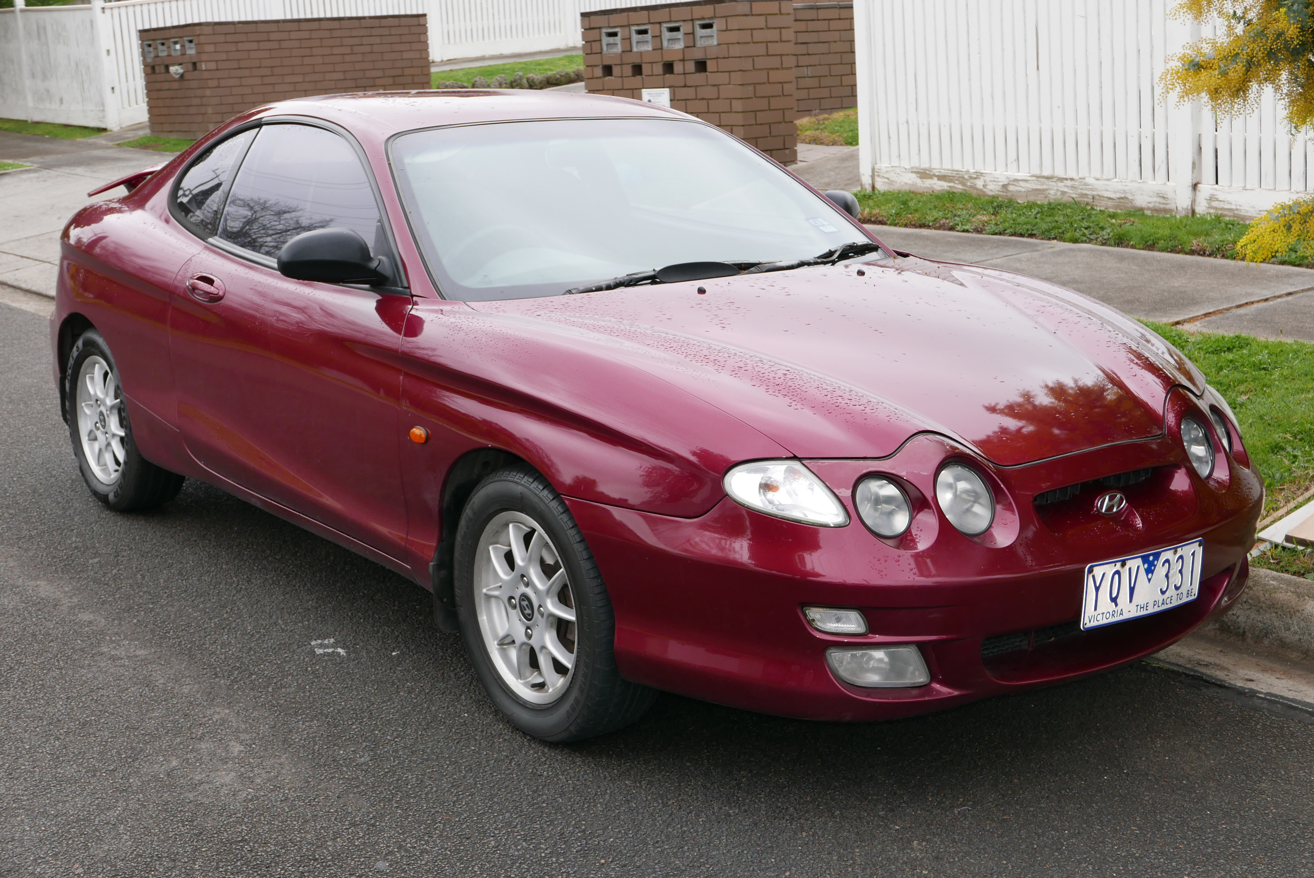 1999 Hyundai Coupe (RD) SX coupe. Photographed in Doncaster, Victoria, Australia. Vehicle registration enquiry results Jurisdiction Victoria Registration YQV331 Chassis code KMHKG21MPYU158818 Engine code G4GMX651141 Compliance date 1999-09 Year of manufacture 2001 (not a typo)